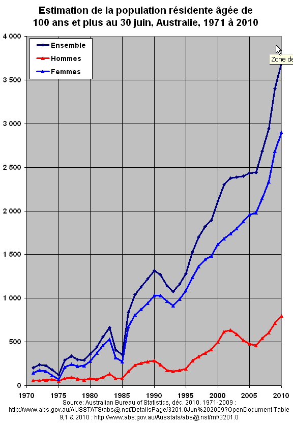 Estimated resident population aged 100+ on 30 June in Australia, 1971 to 2010